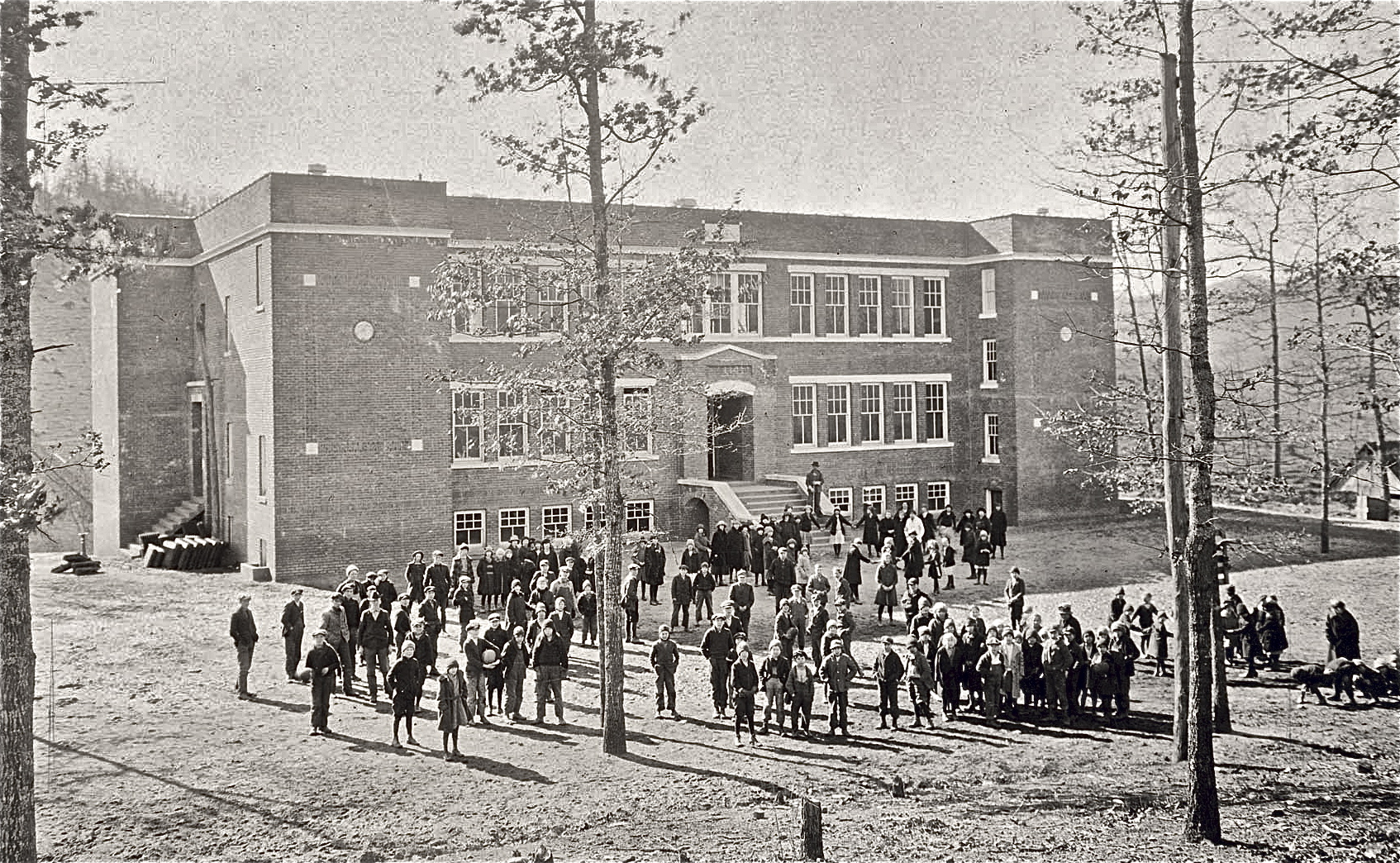 The old Cullowhee School, built in 1923 and shown here about that time. This building was a school for 16 years until 1939 and later made way for Brown Cafeteria on the Western Carolina University Campus in 1955.